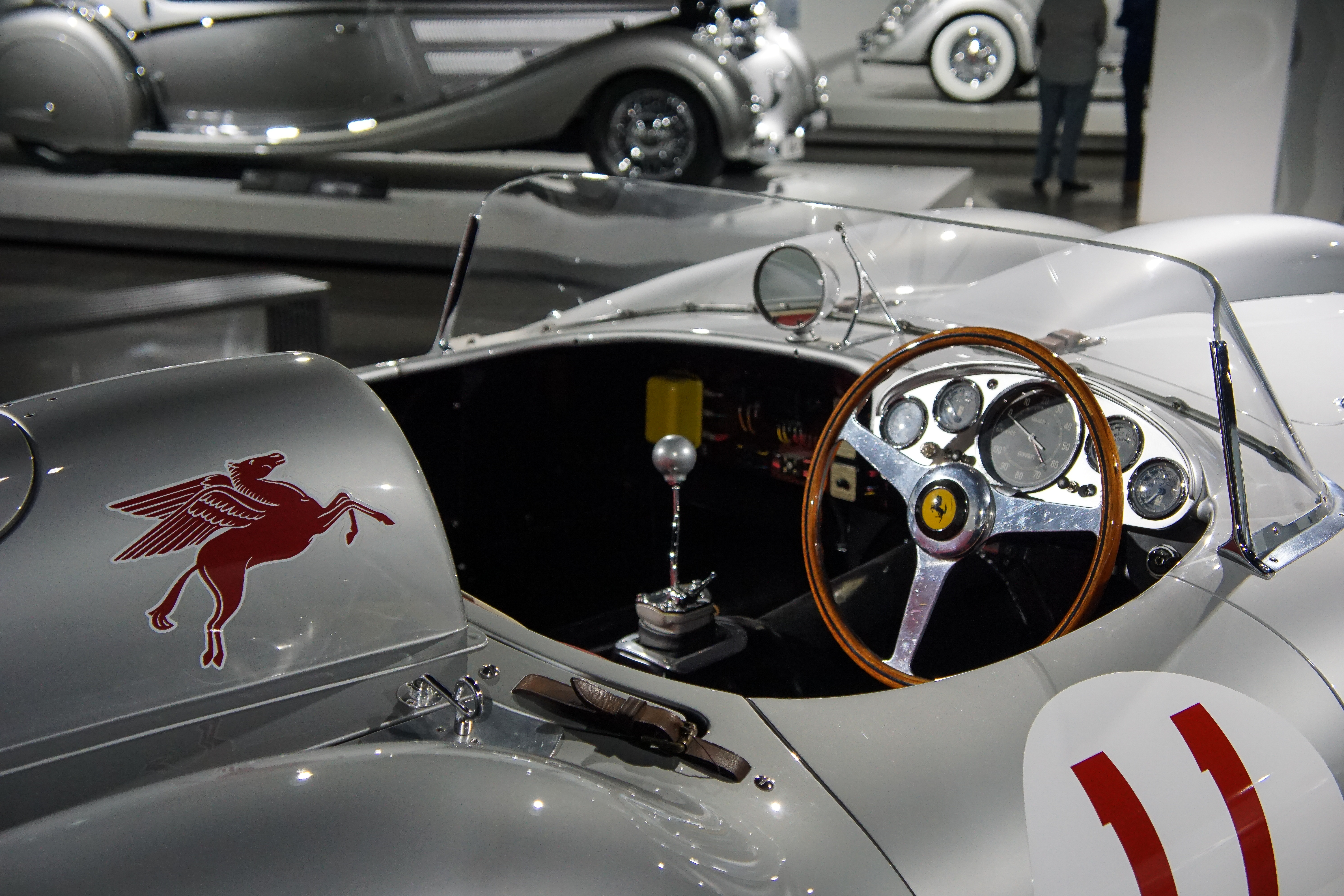 Petersen Automobile Museum Wilshire Blvd Los Angeles California